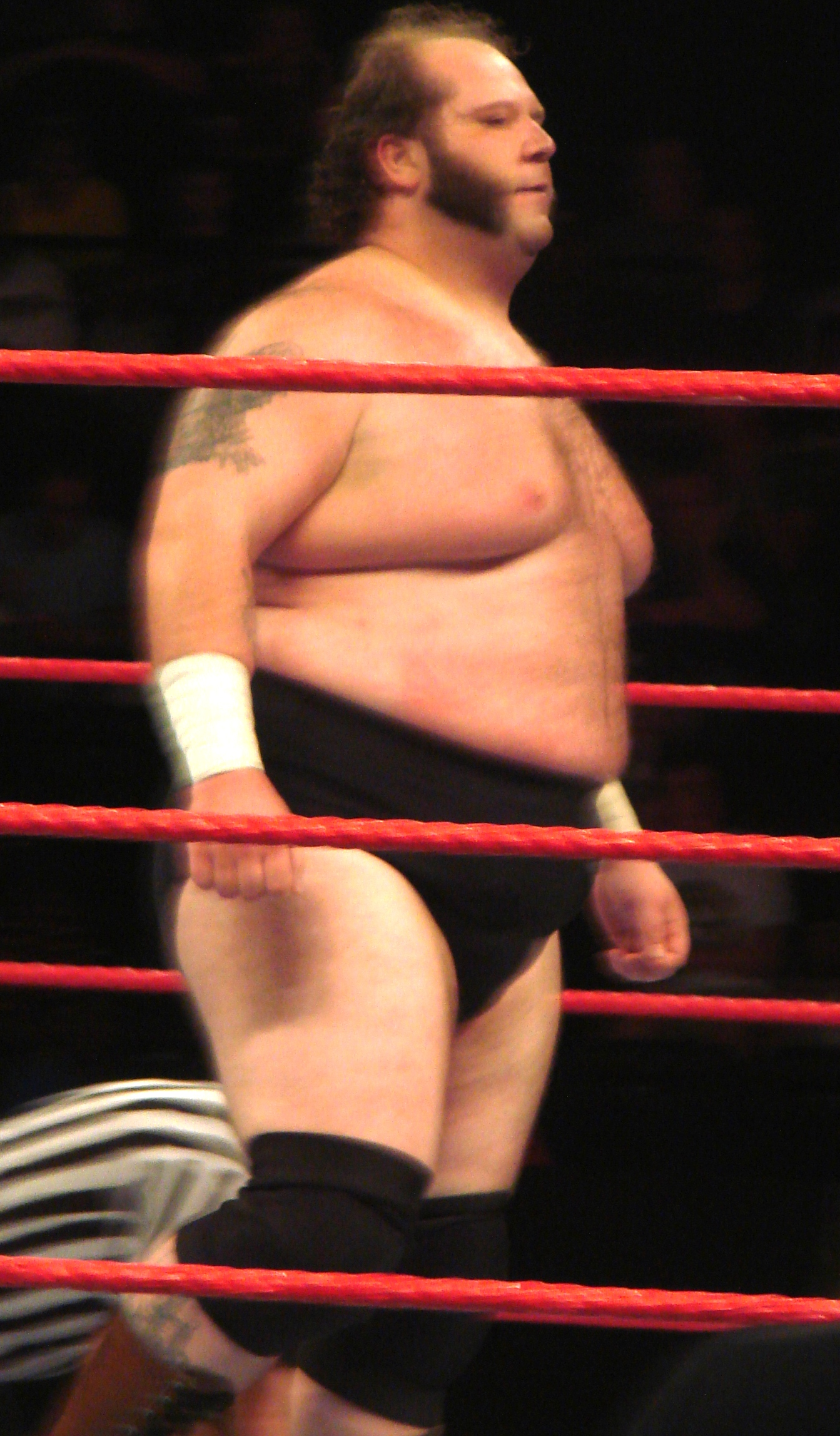 Professional Wrestler Roadkill at a WWE Raw live event in Nashville on April 302007.